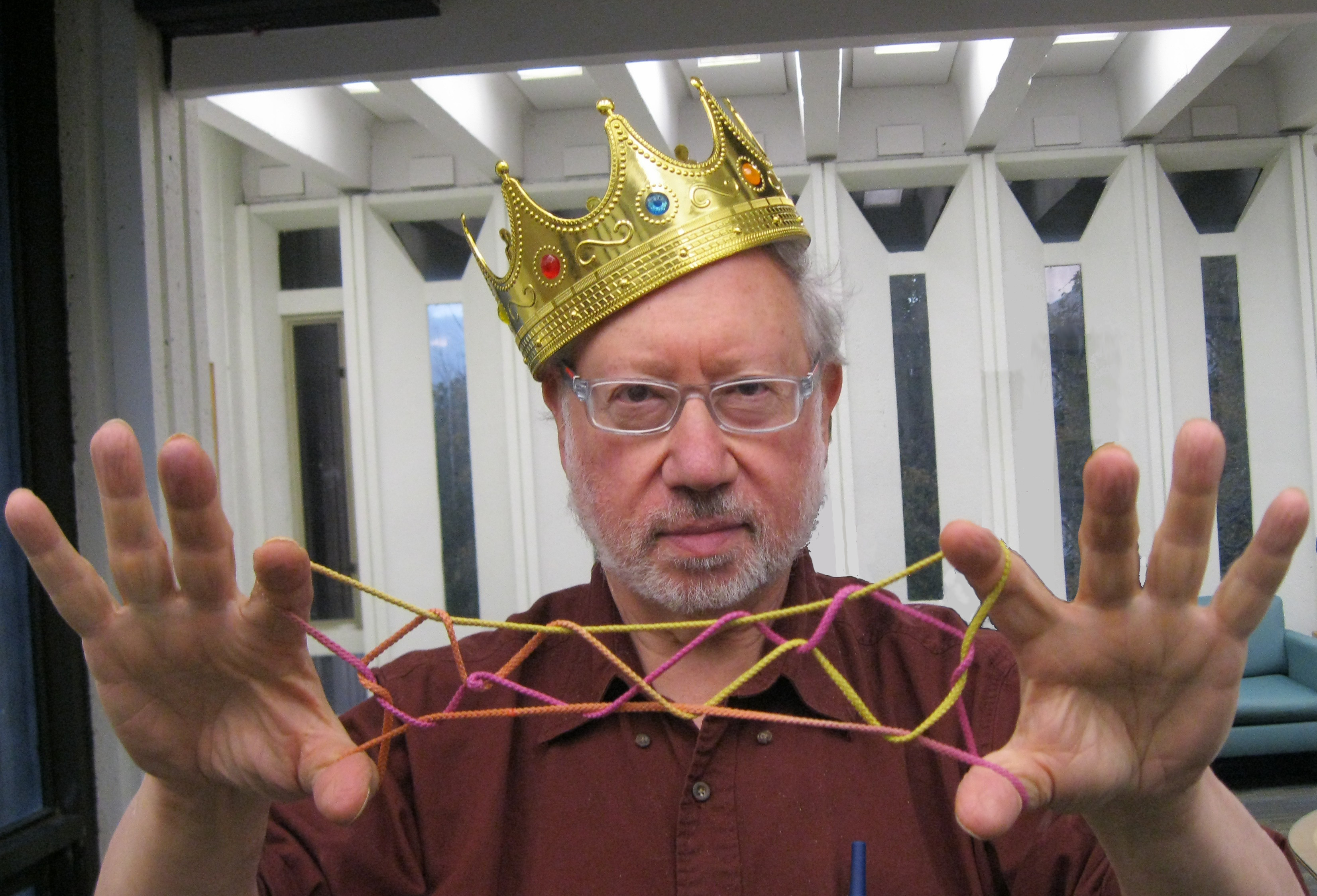 Professor Louis H. Kauffman, Department of Mathematics, Statistics, & Computer Science, University of Illinois at Chicago. October 31, 2014